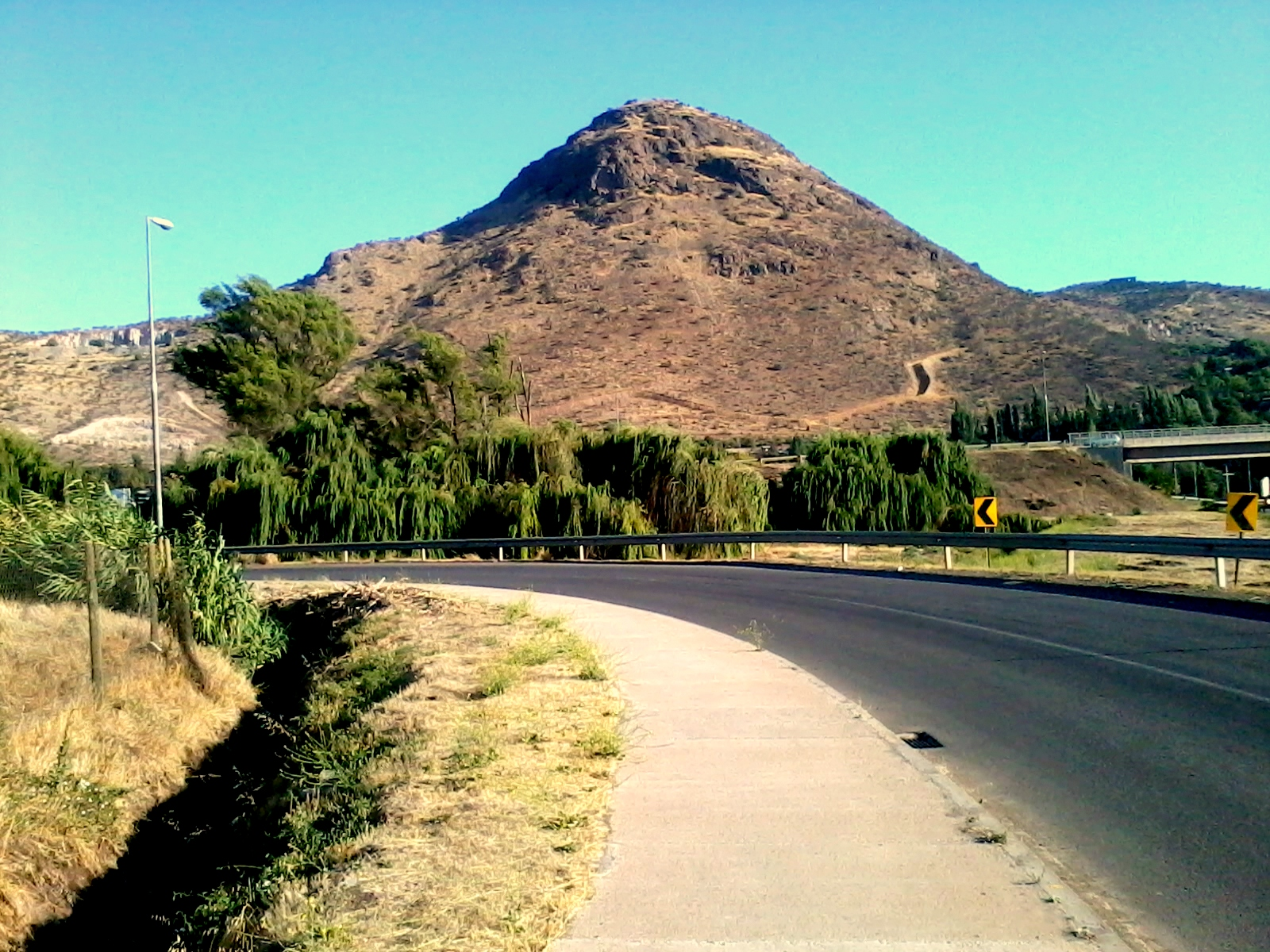 Las Canteras hill,Colina,Chile.